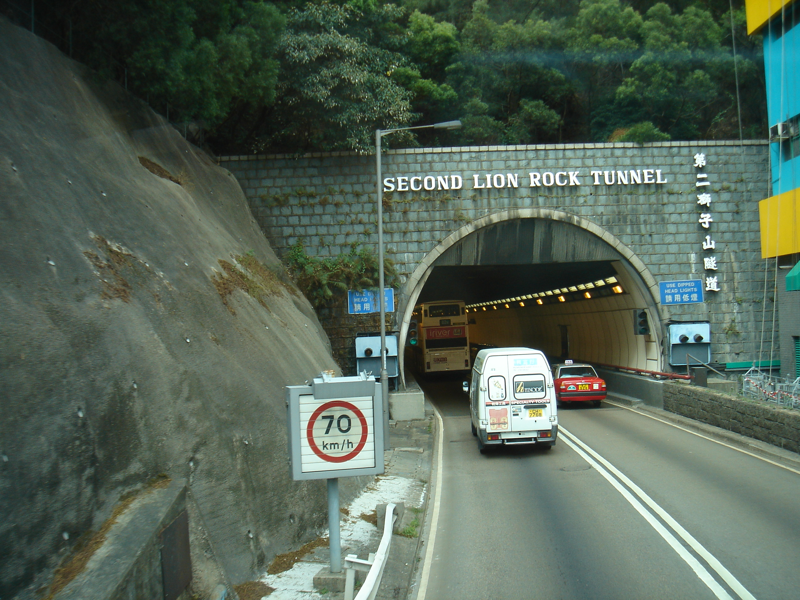 Southern entrance of the Second Lion Rock Tunnel in New Kowloon, Hong Kong.